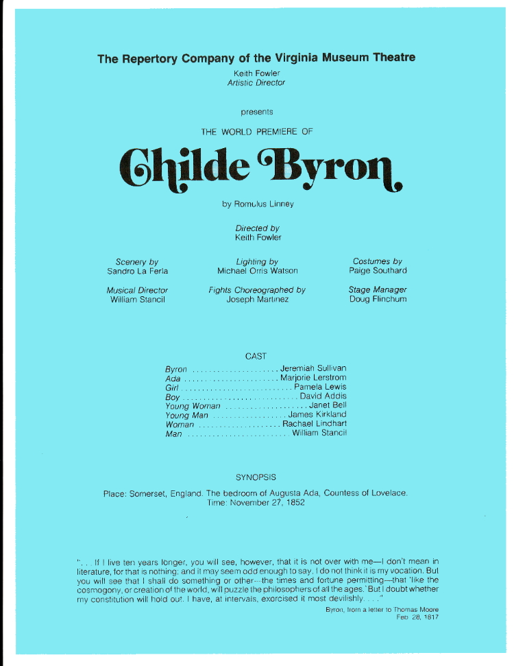 Credits page for premiere of Chlide Byron